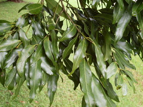 Cinnamomum oliveri, leaves. Foxground